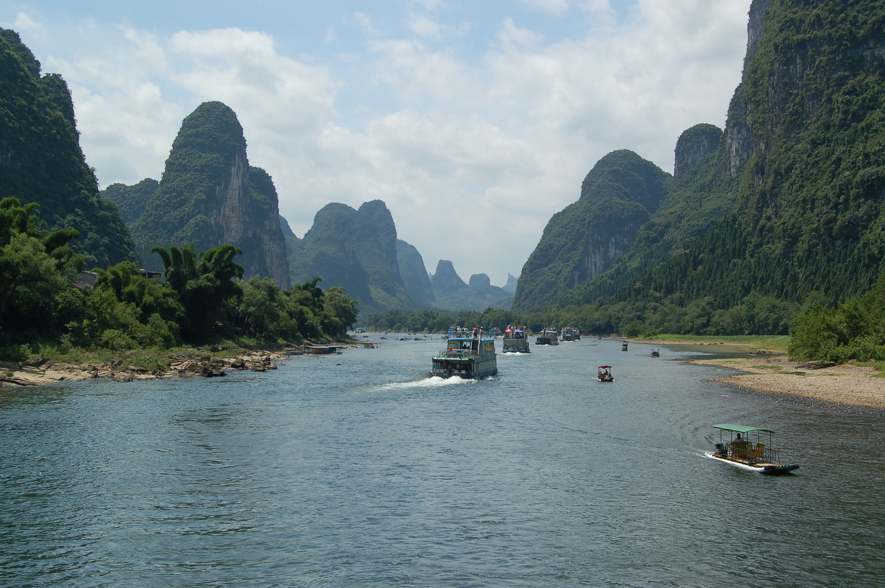 Gui Jiang river